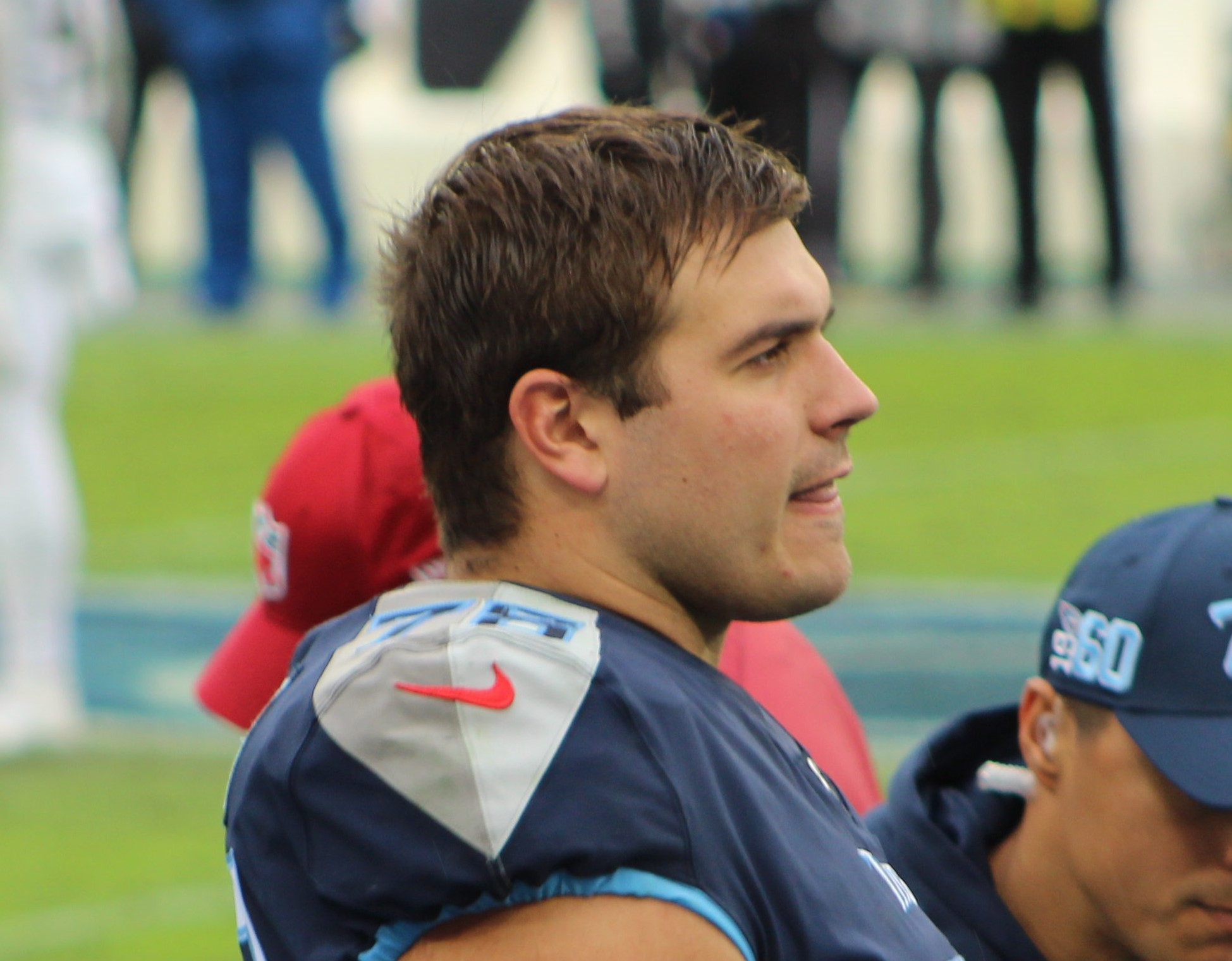 Conklin with the Titans on December 22, 2019